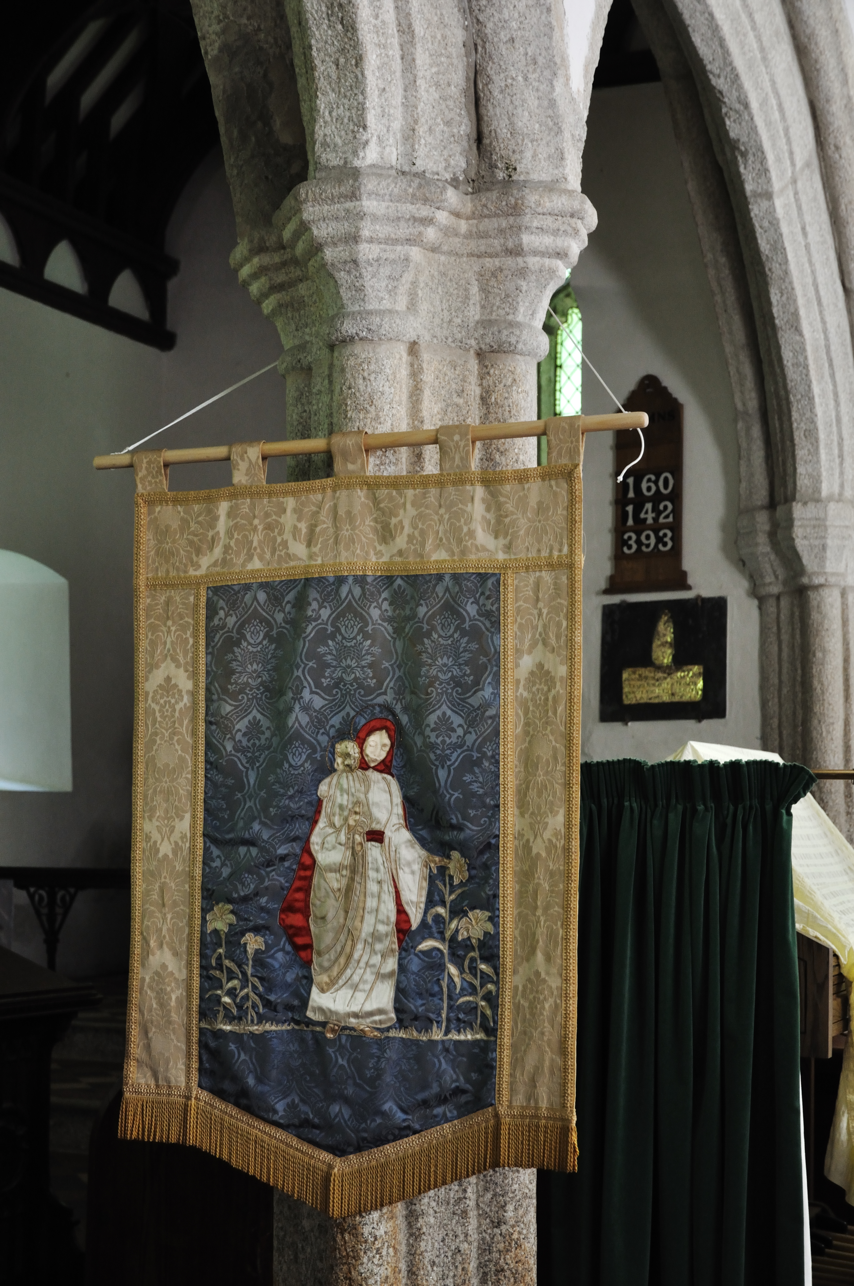 Saint Merteriana Church, Minster, Cornwall, also known as Minster Church. It is situated in a hidden valley near Boscastle